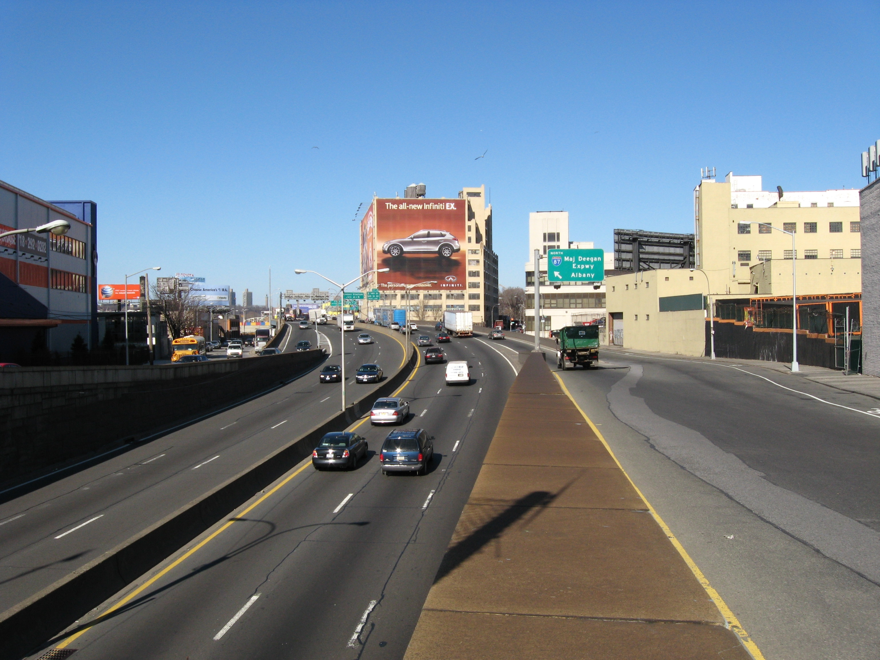 Major Deegan Expressway looking north from 138th Street overpass on a chilly sunny winter day